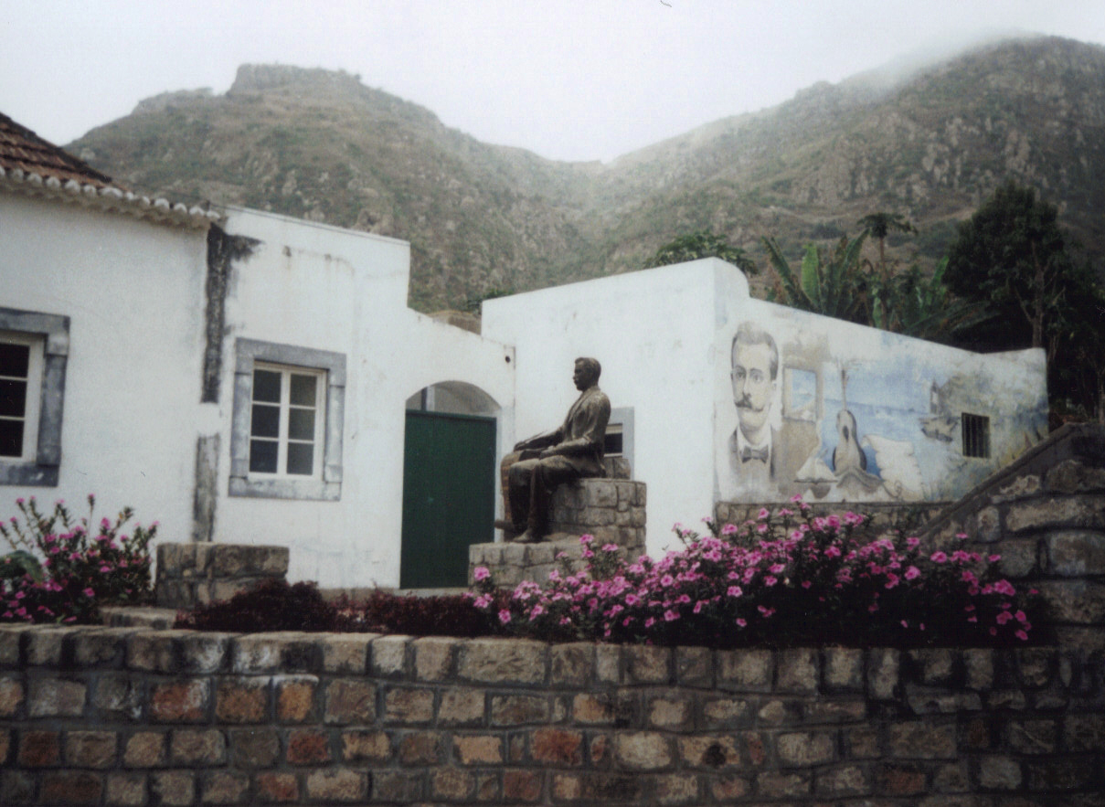 Monument of Eugénio Tavares, Vila Nova de Sintra, Ilha Brava, Cabo Verde.